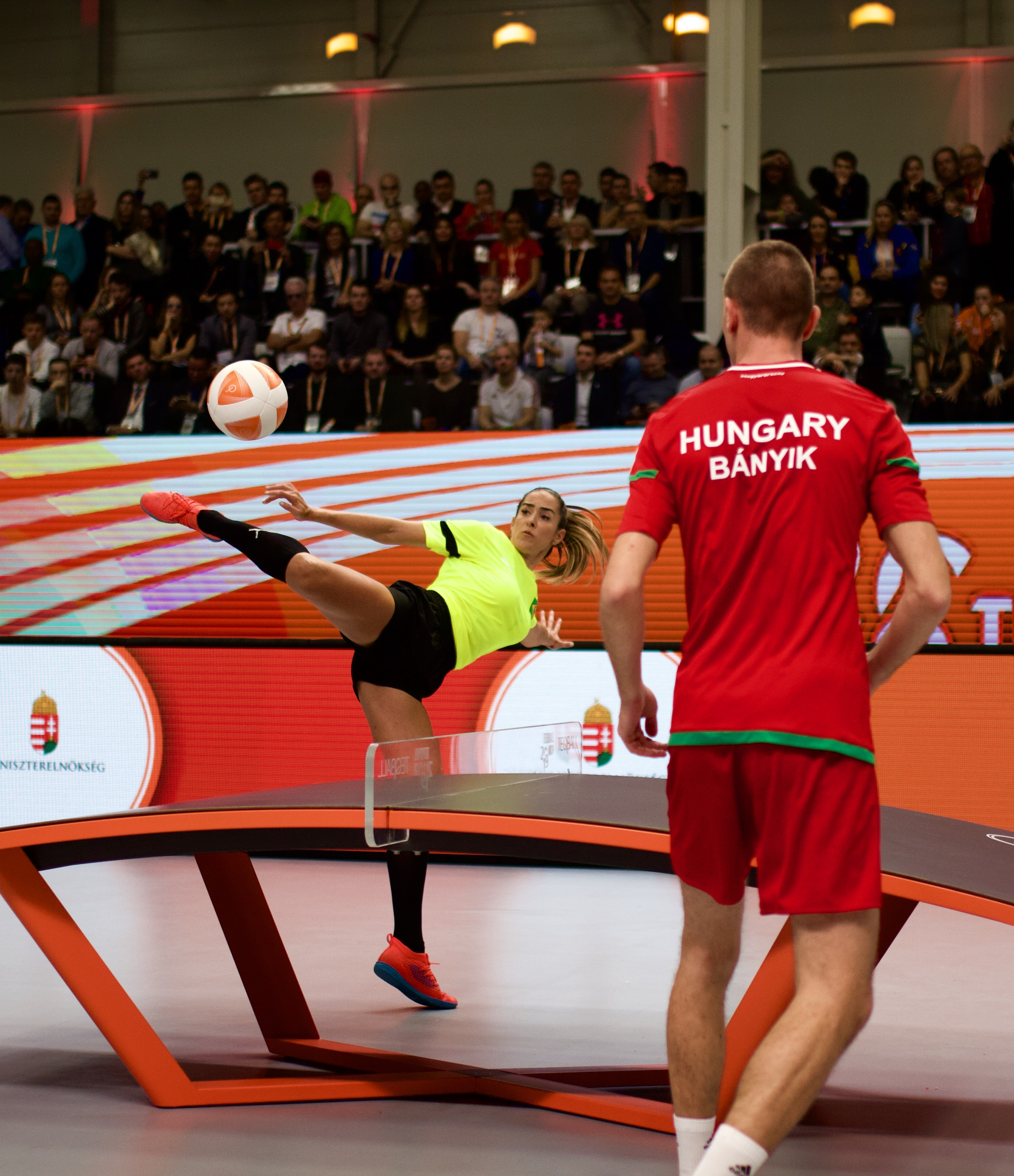 Teqball